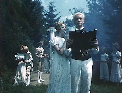 Narcissus and Klárcsa